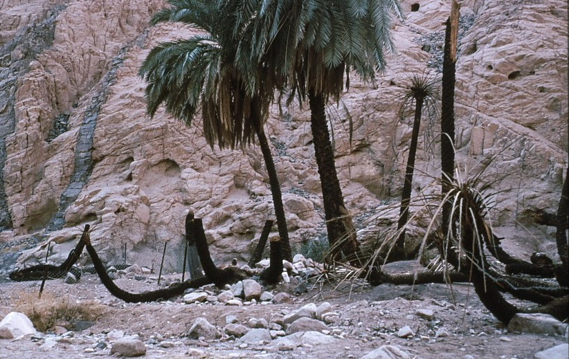 Gan-Shmuel shz22- 4, Events in Israel